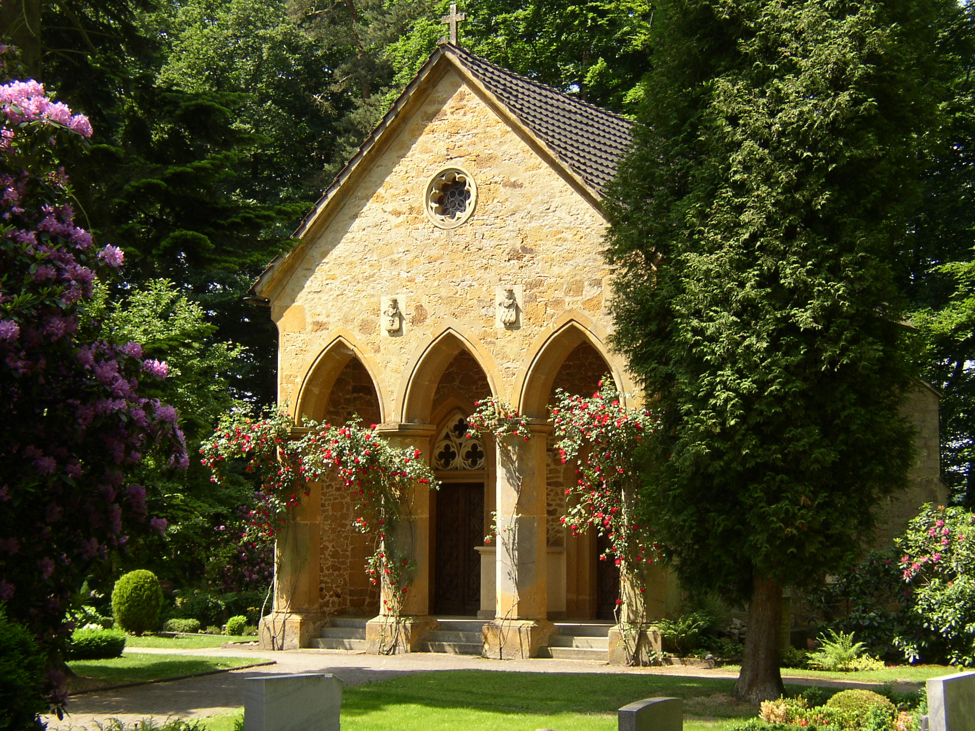 former mausoleum in Stockkämpen in Halle (Westf.)